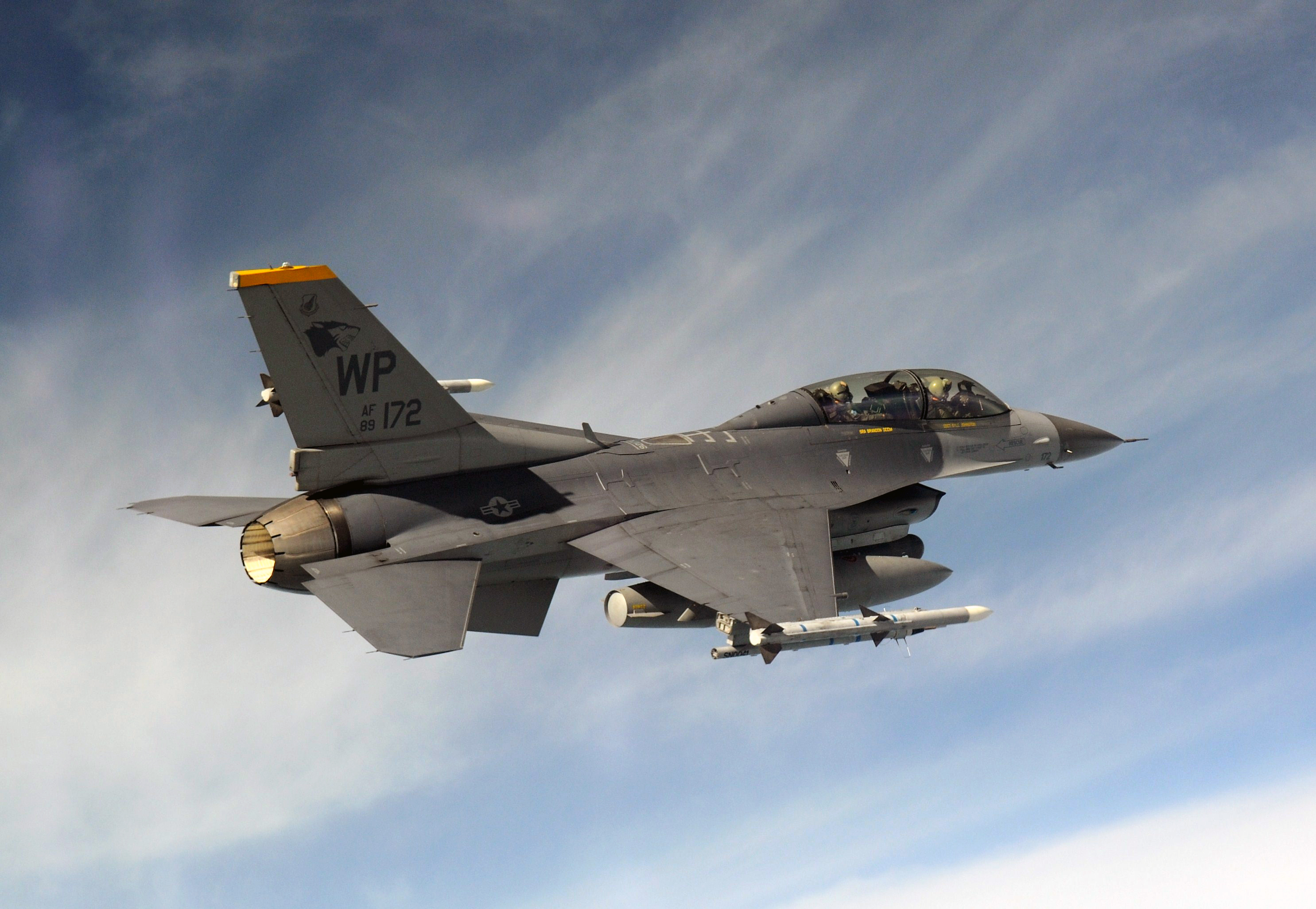 An 80th Fighter Squadron F-16D Block 40G Fighting Falcon flies Oct. 21, 2010, in support of training exercise Max Thunder 10-02.